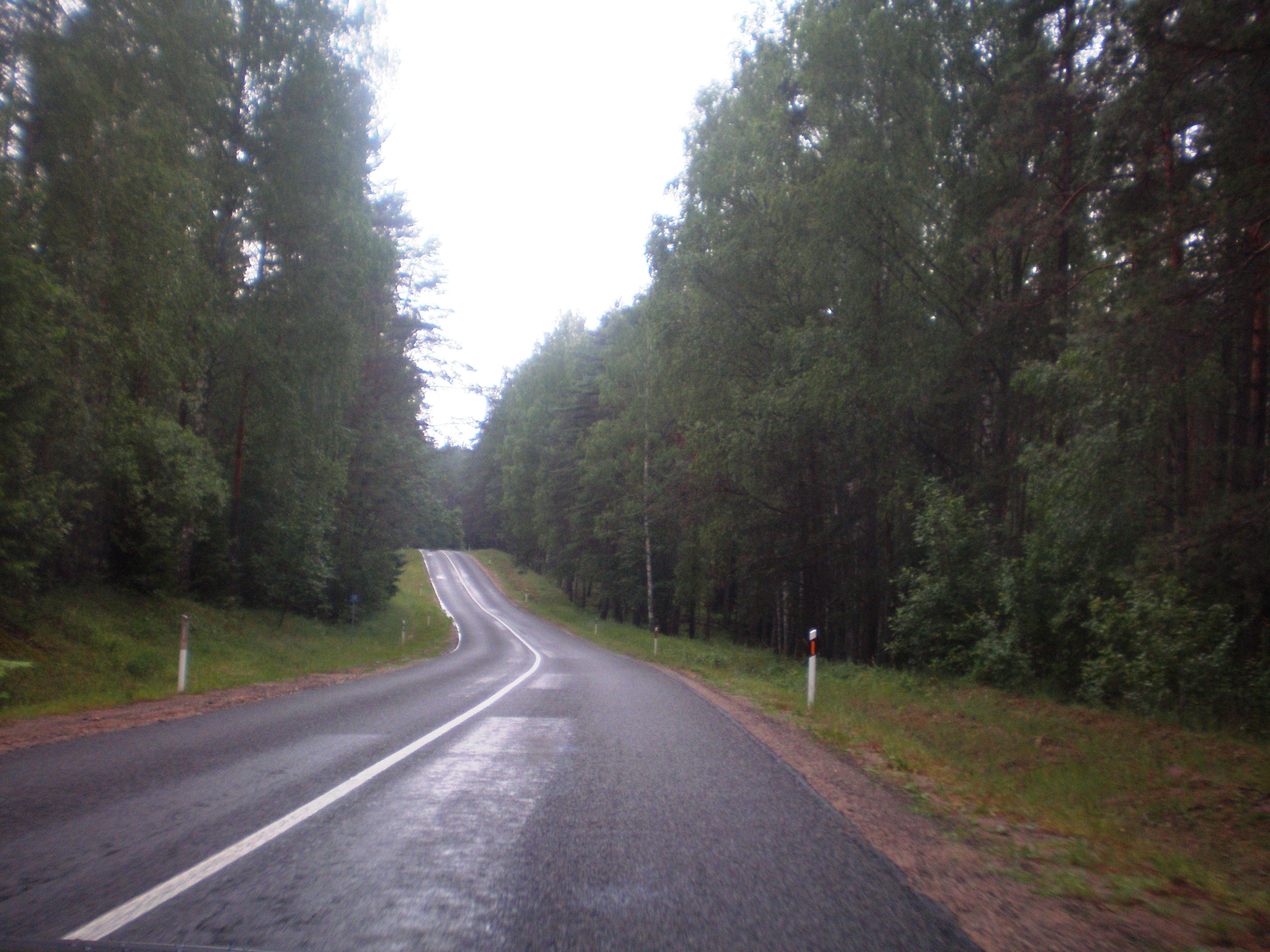 Labanoras forest in Švenčionys district